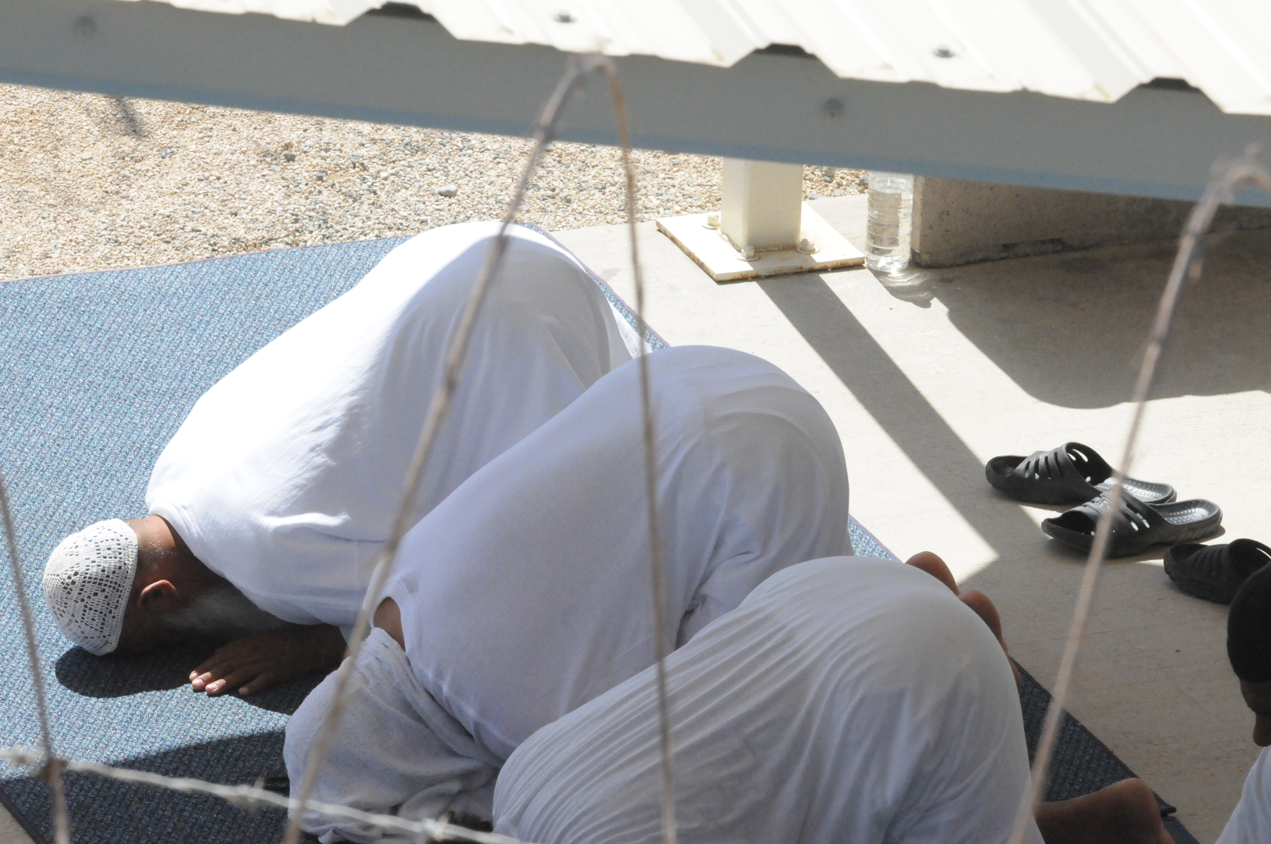 GUANTANAMO BAY, Cuba (Nov. 1, 2010) Detainees pray in the recreation area of Camp Four at Joint Task Force Guantanamo. (U.S. Air Force photo by U.S. Air Force Senior Airman Gino Reyes/Released)